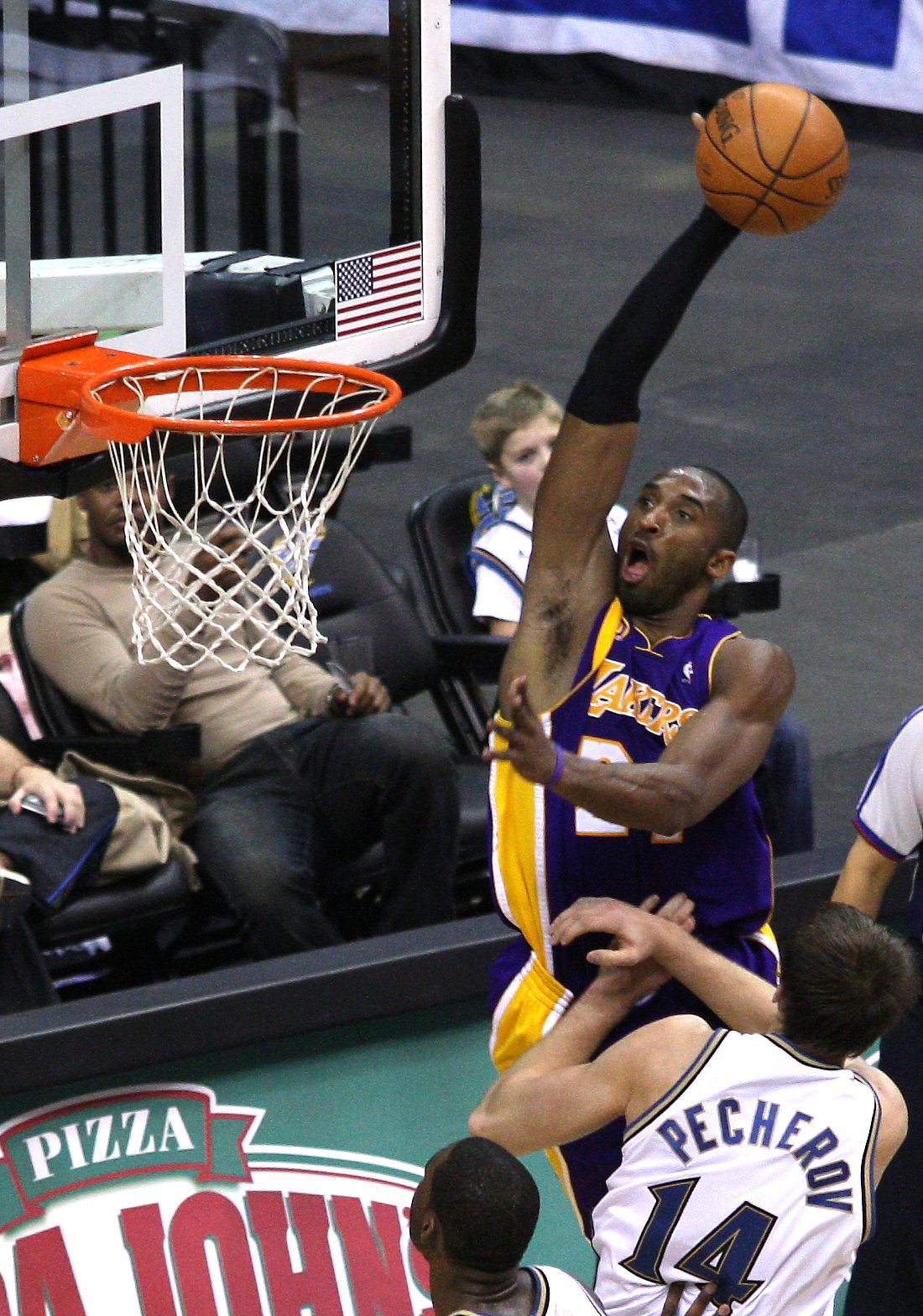 Kobe Bryant of the Los Angeles Lakers